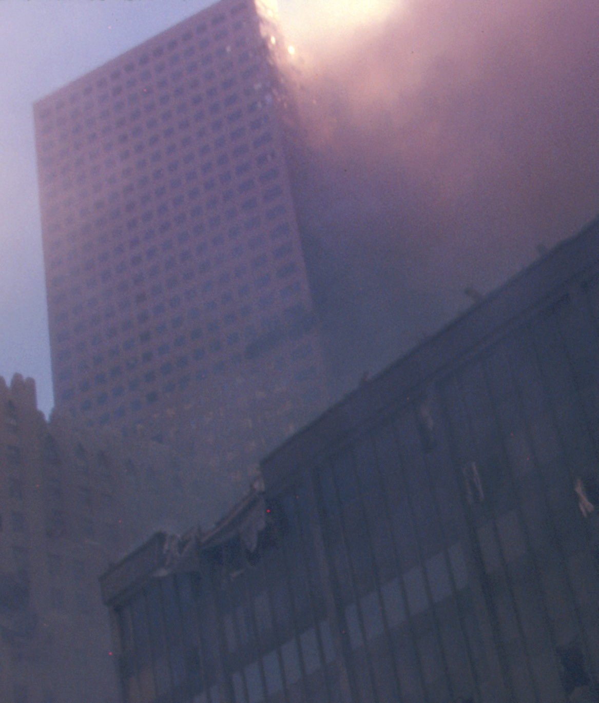 Destruction following the 9/11 attacks.